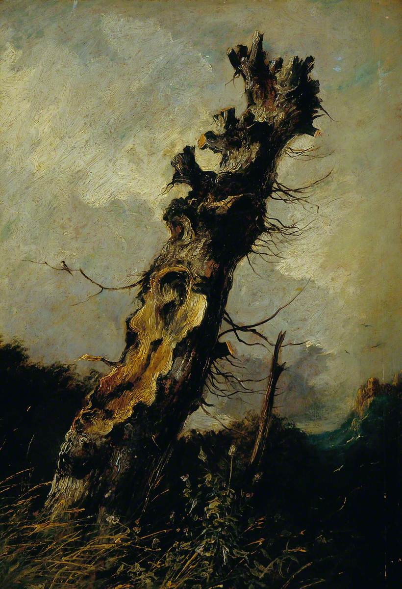 Thomson, John; Blasted Oak; The Stirling Smith Art Gallery & Museum